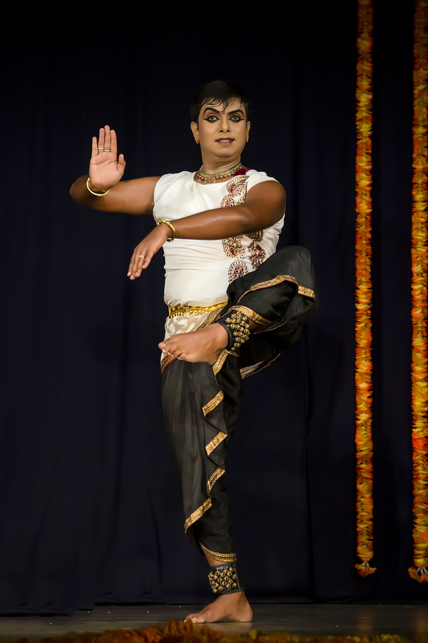 A male Bharata Natyam performer